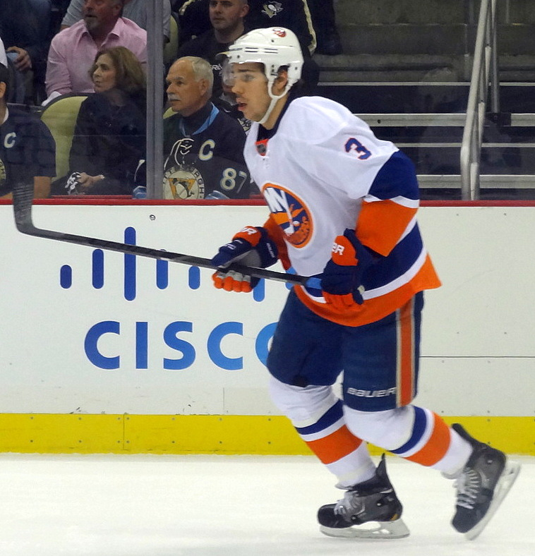 New York Islanders defenseman during round one, game five of the 2013 Stanley Cup playoffs against the Pittsburgh Penguins, May 9, 2013 at Consol Energy Center.